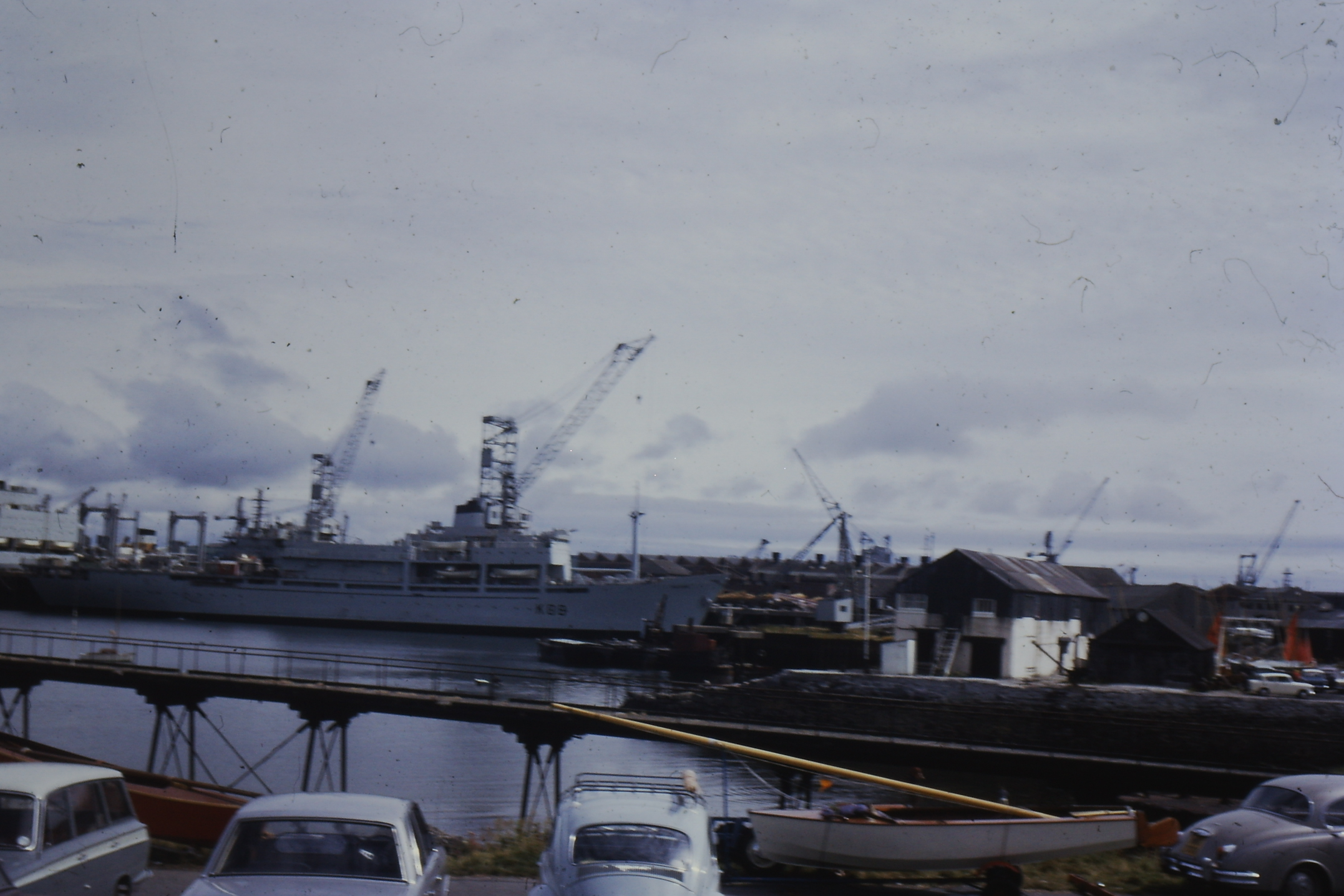 RFA Engadine (K08), a Helicopter Support Ship of the Royal Fleet Auxiliary, somewhere between 1969 and 1973, Falmouth, on the south coast of England (Falmouth Submarine Pier in foreground).